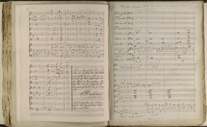 Manuscript of Mendelssohn's Oratorio 'Elijah'. The work was commissioned by the Birmingham Music Festival for a first performance in 1846. The manuscript depicted was used at that first midday concert by the organist H J Gauntlet and is held by the Library of Birmingham. It is the work of a German Copyist, but contains amendments by the composer and organist and examples of material later removed or replaced by Mendelssohn in time for repeat performances the following year.